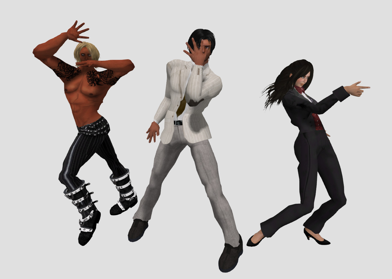 Jojo-dachi - "Jojo's standing posture", characteristic postures of "JoJo's Bizarre Adventure" written and illustrated by Hirohiko Araki